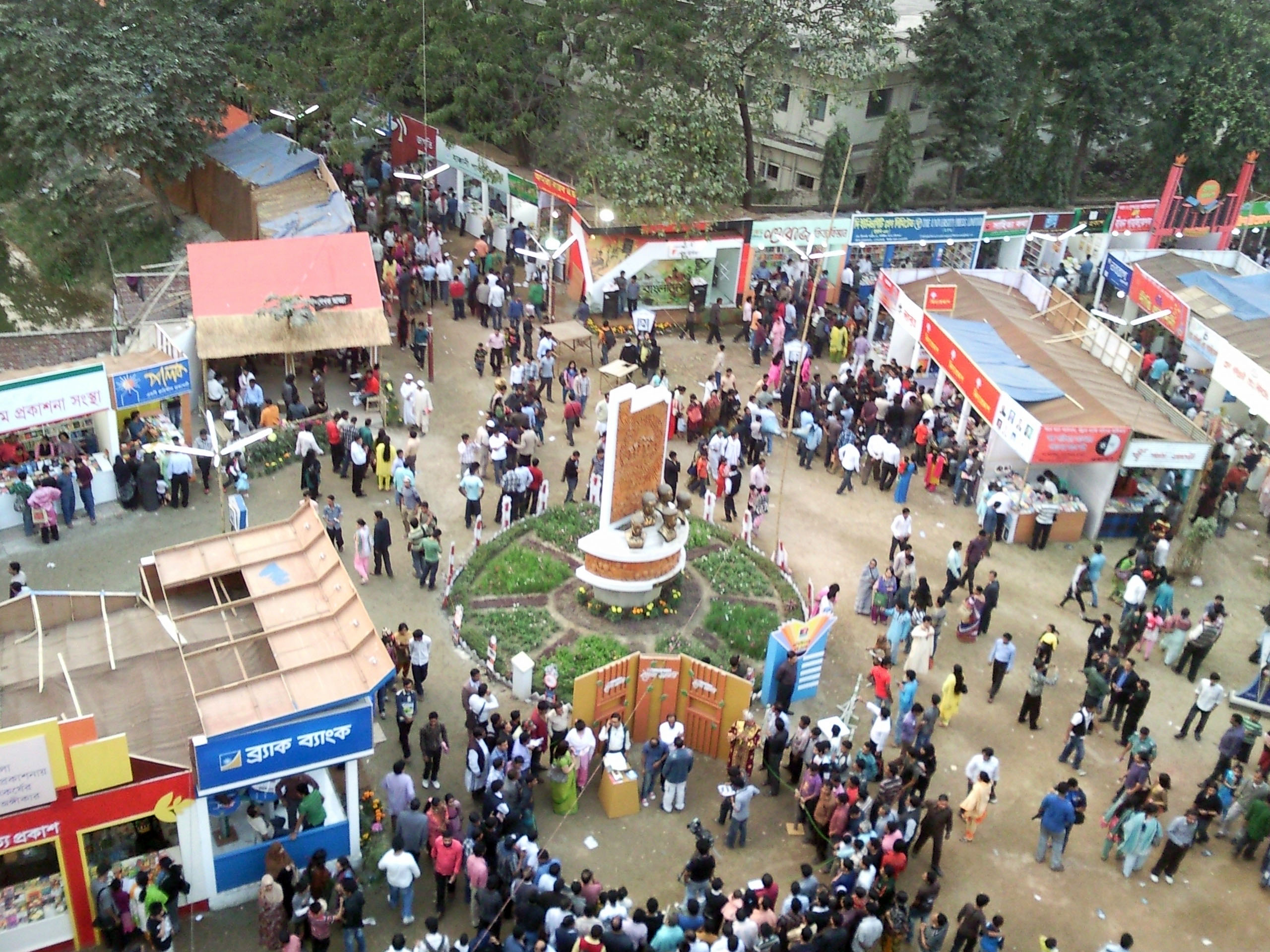 Ekushey Book Fair, photo taken from Bardhaman House, focusing at the central point of the fair ground